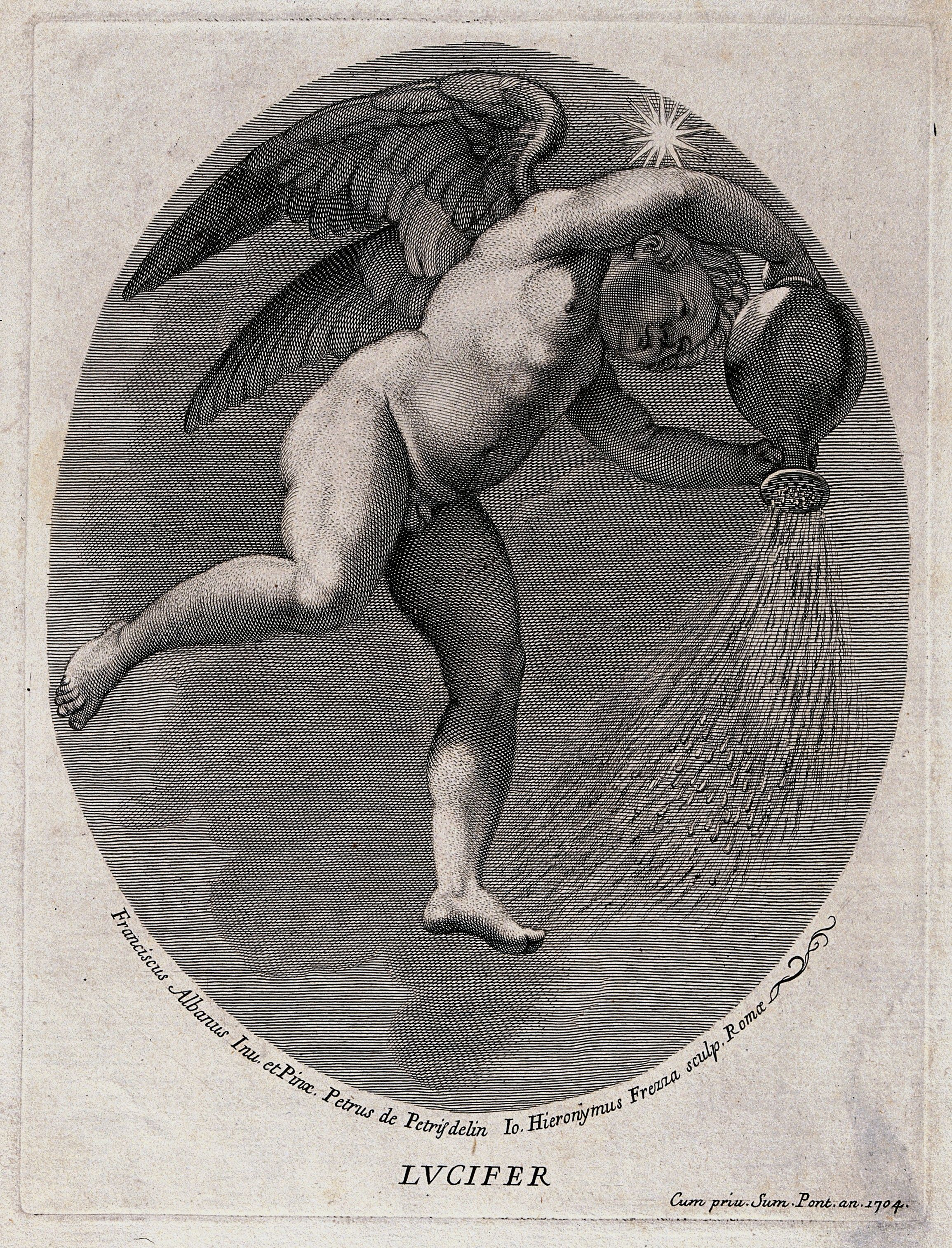 Lucifer [the morning star]. Engraving by G.H. Frezza, 1704, after P. de Petris after F. Albani. Iconographic Collections